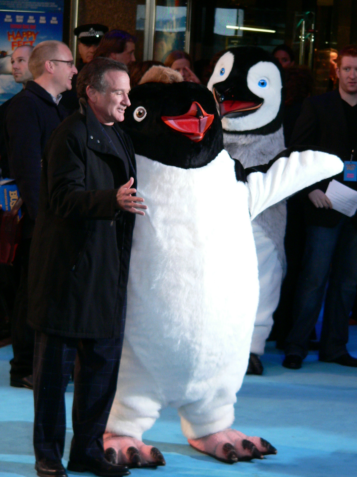 Robin Williams